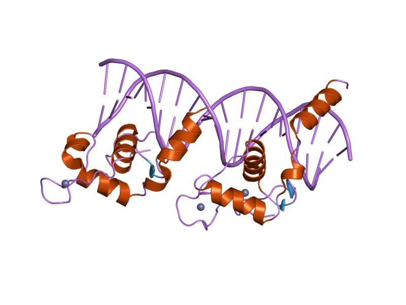 Cartoon representation of the molecular structure of protein registered with 1kb2 code.